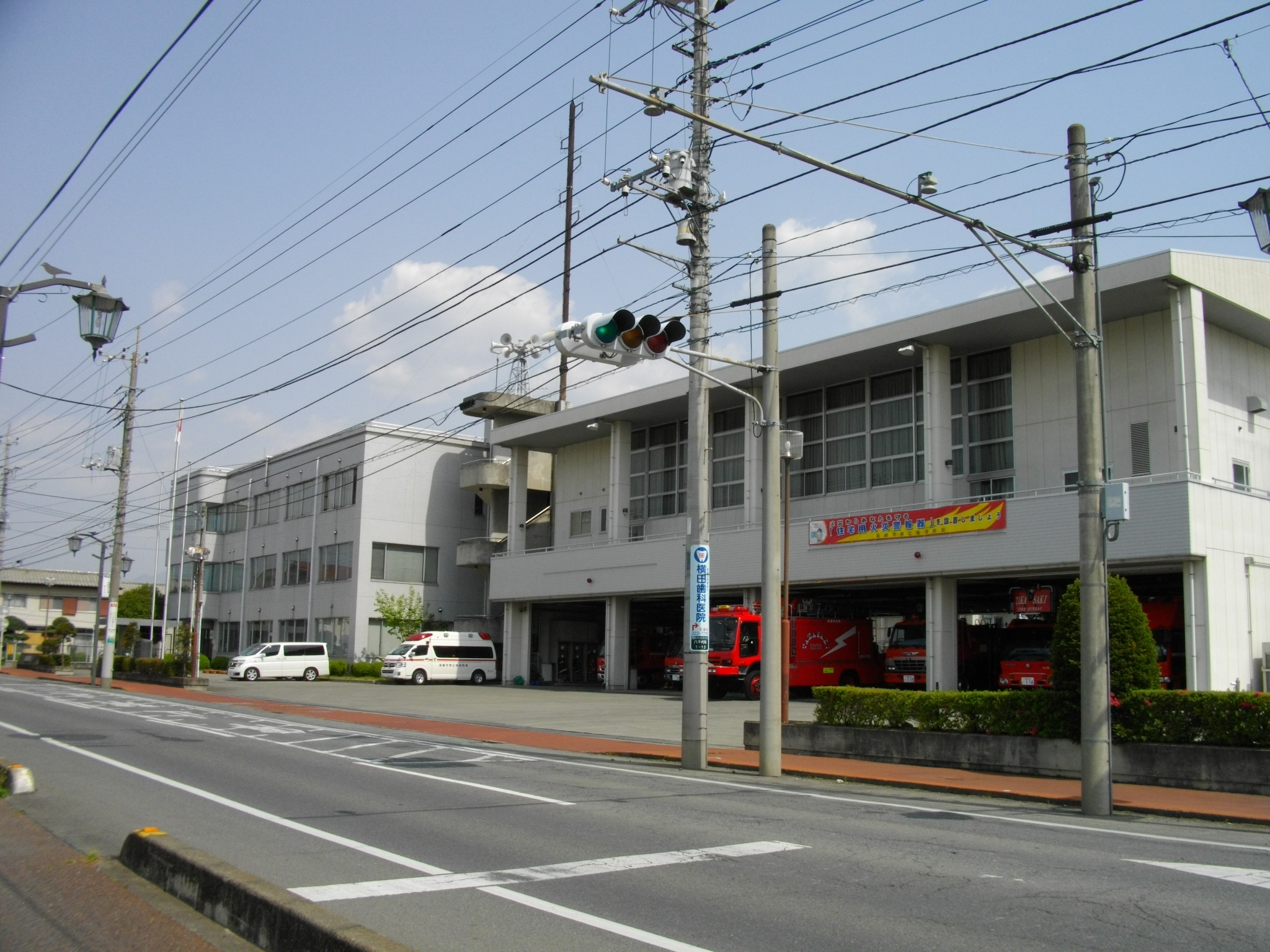 Takasaki City Large Area Fire Bureau